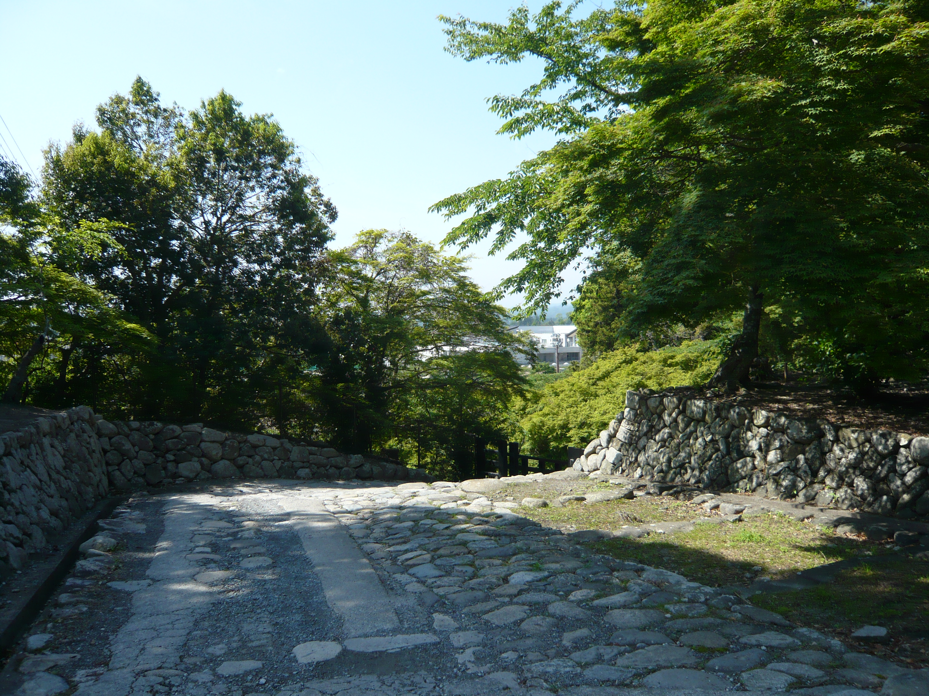 Soma Nakamura Castle